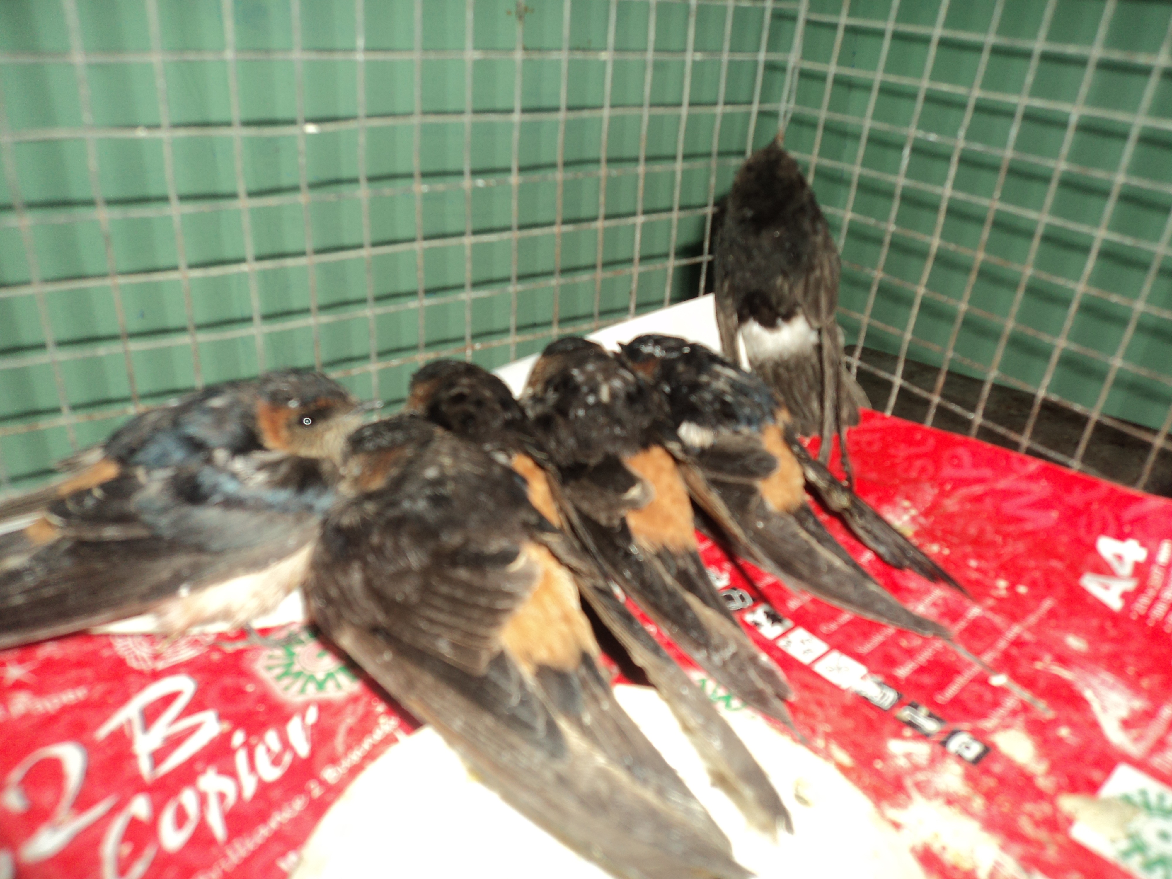 some important event/culture in central (Attur town, Salem district) Tamil Nadu